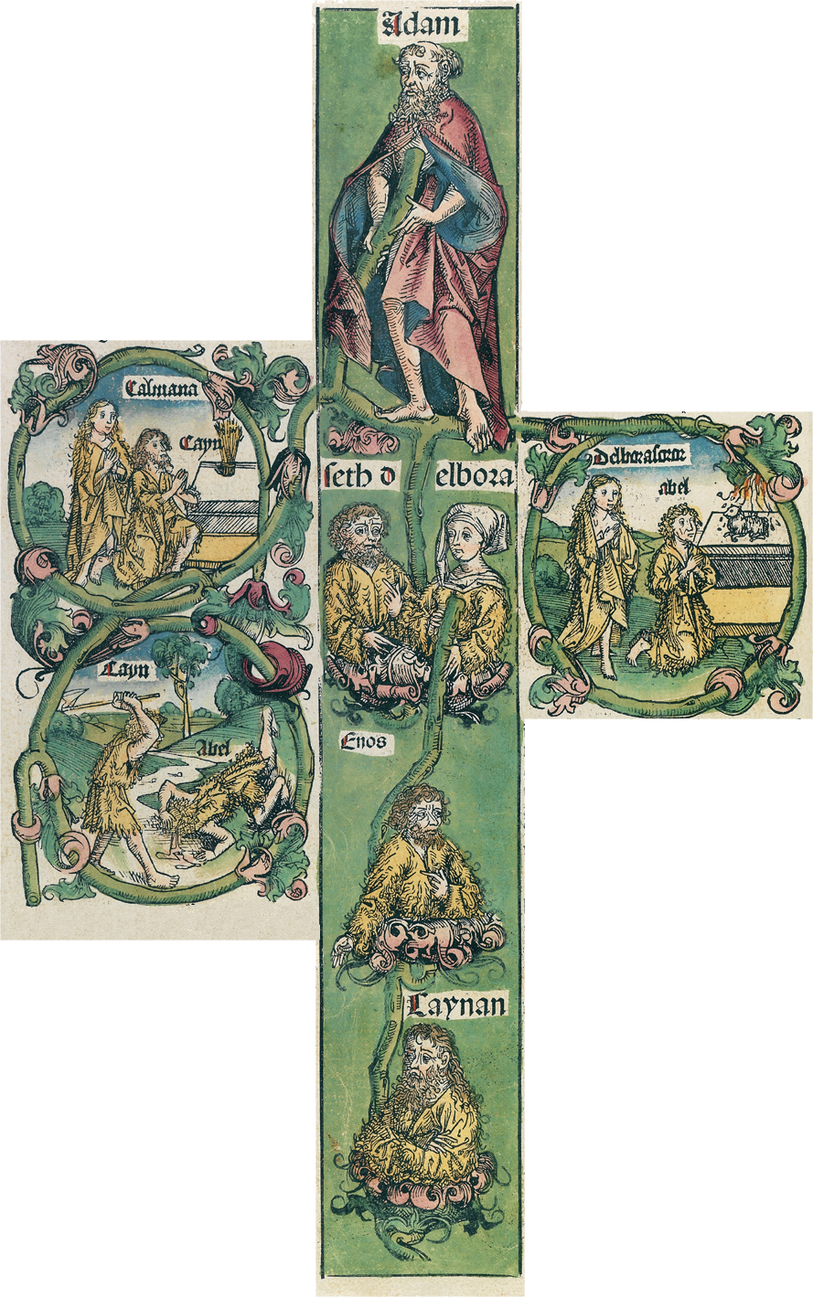 Woodcut from the Nuremberg Chronicle